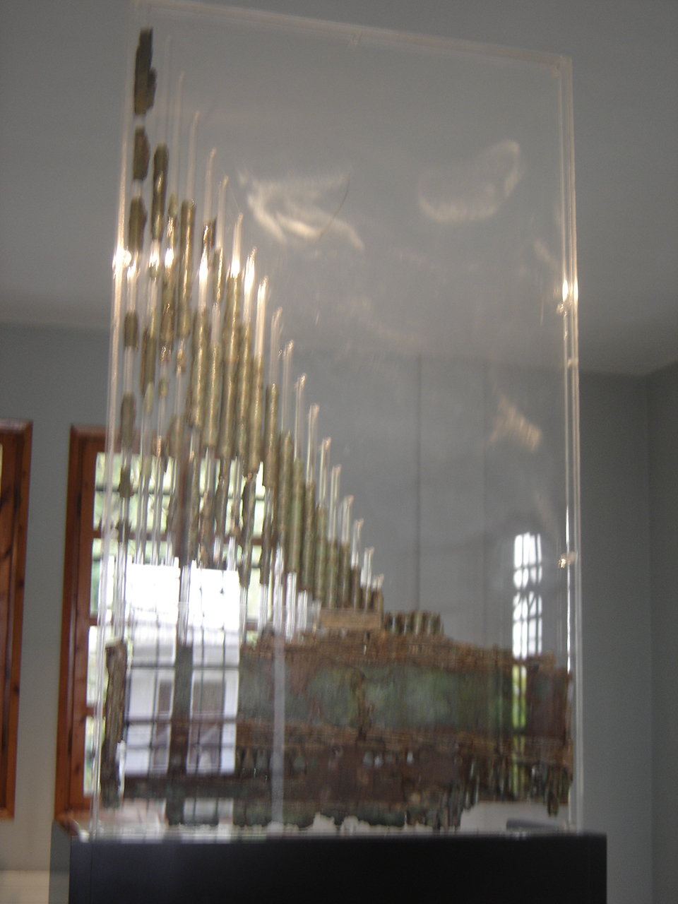 Hedravlis, one of the oldest musical instruments, found in Dion, from the Archaeological Museum of Dion.